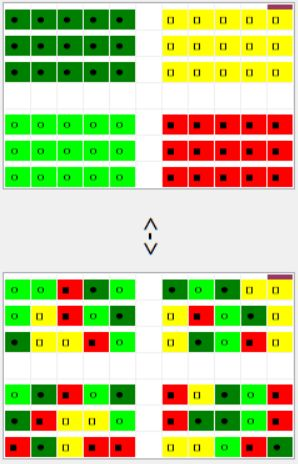 A Rubikplane initial position and a scrambled position. A screenshot from my program